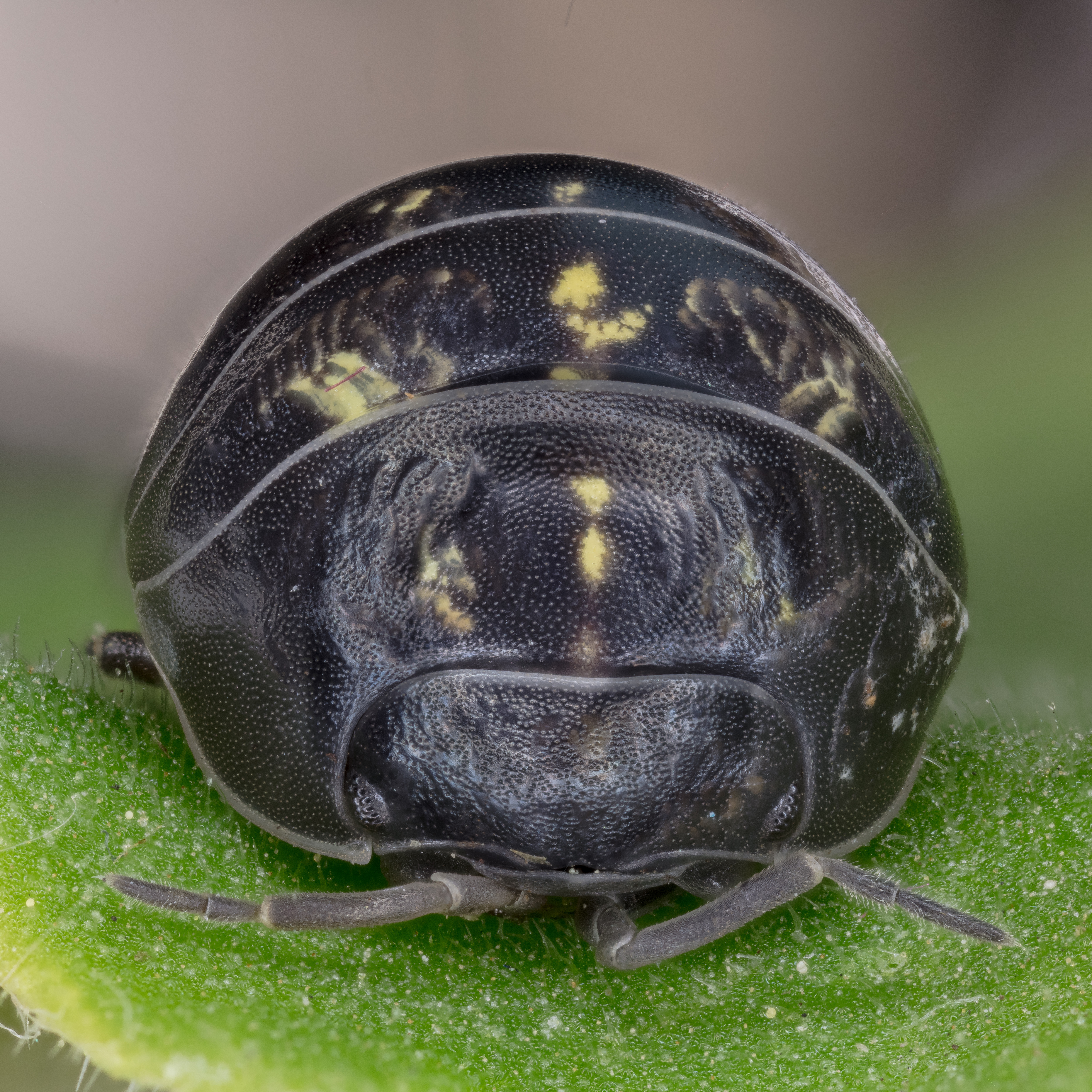 Pill bug (Armadillidium opacum), Hartelholz, Munich, Germany